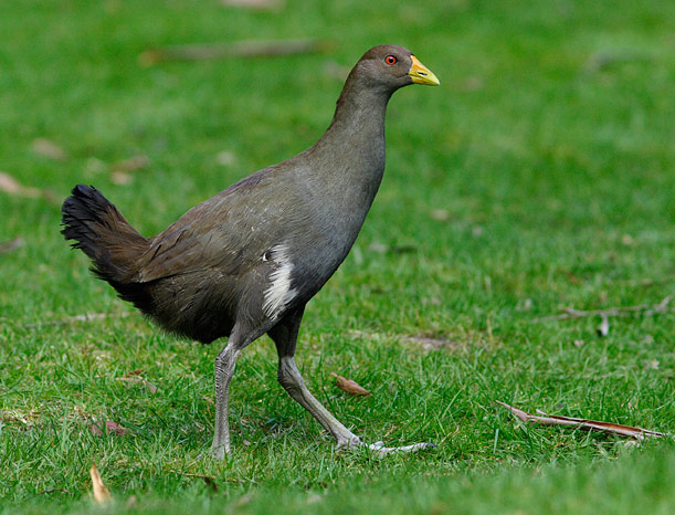 Tribonyx mortierii Photographer Felix Wilson